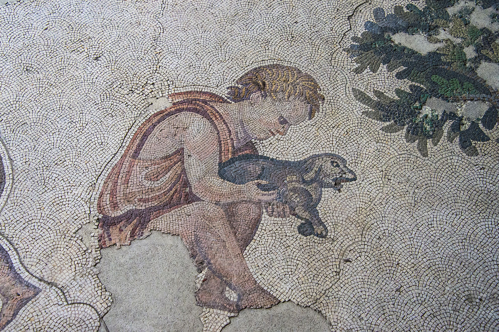 Child and dog (and out of sight a boy reaching for something that did not survice)